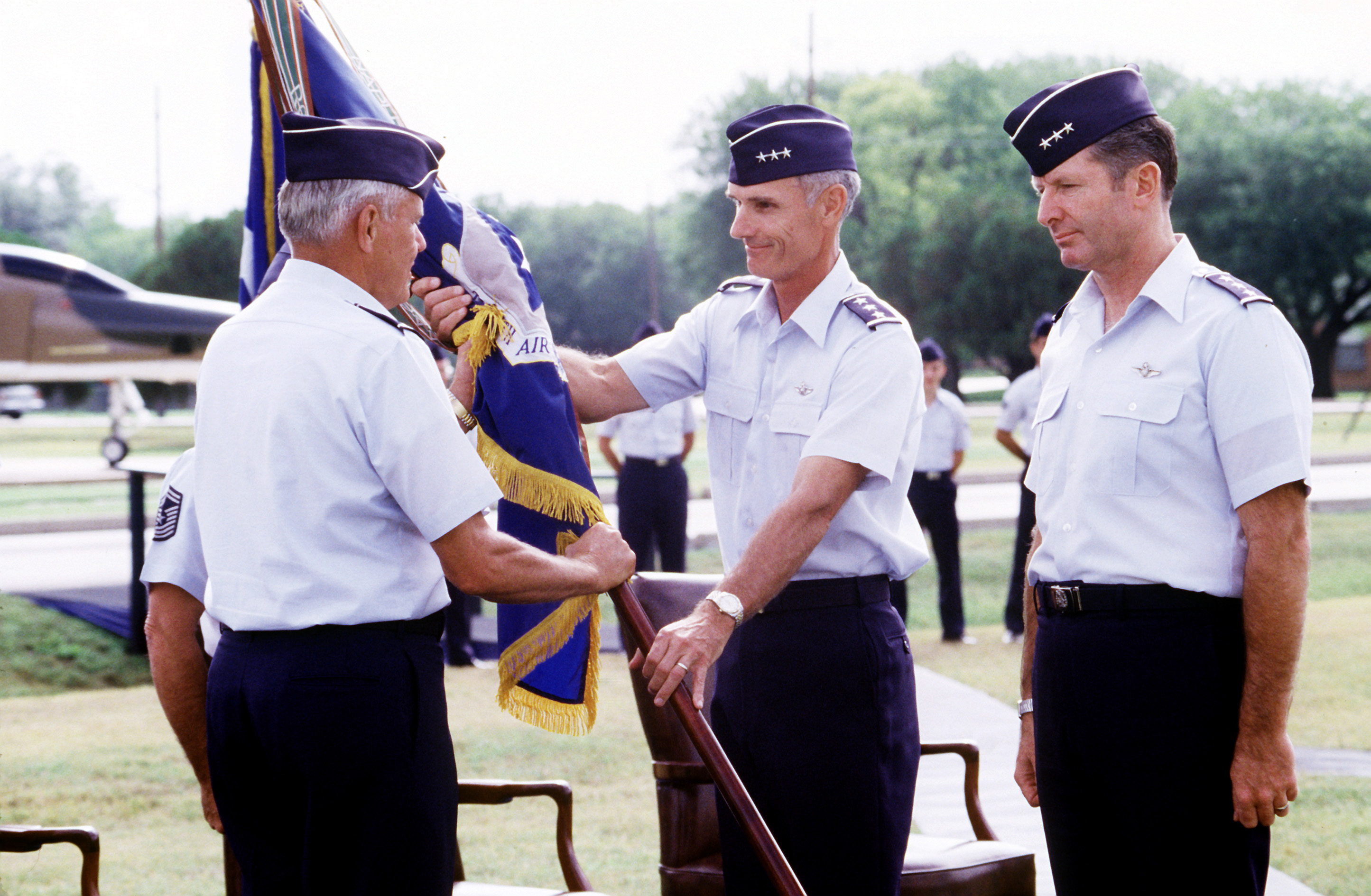 Lieutenant General Merrill McPeak upon assuming command of The Pacific Air Force, passes the unit colors of the 12th Air Force to General Robert D. Russ, upon Lieutenant General Peter T. Kempf taking command of the 12th Air Force.